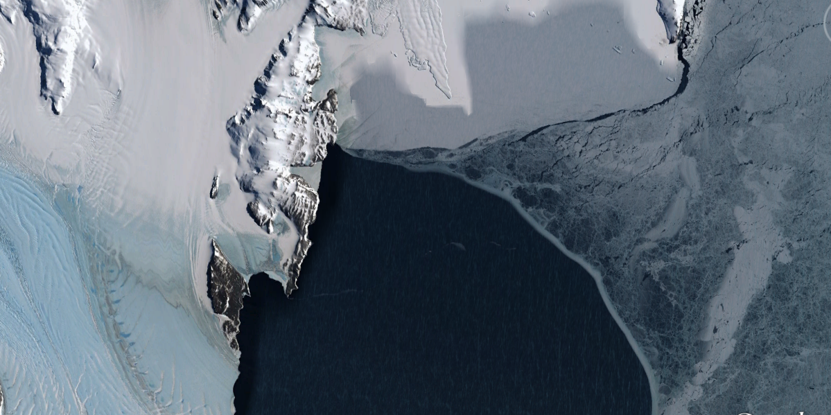 Google Earth view of Terra Nova Bay in Antarctica.